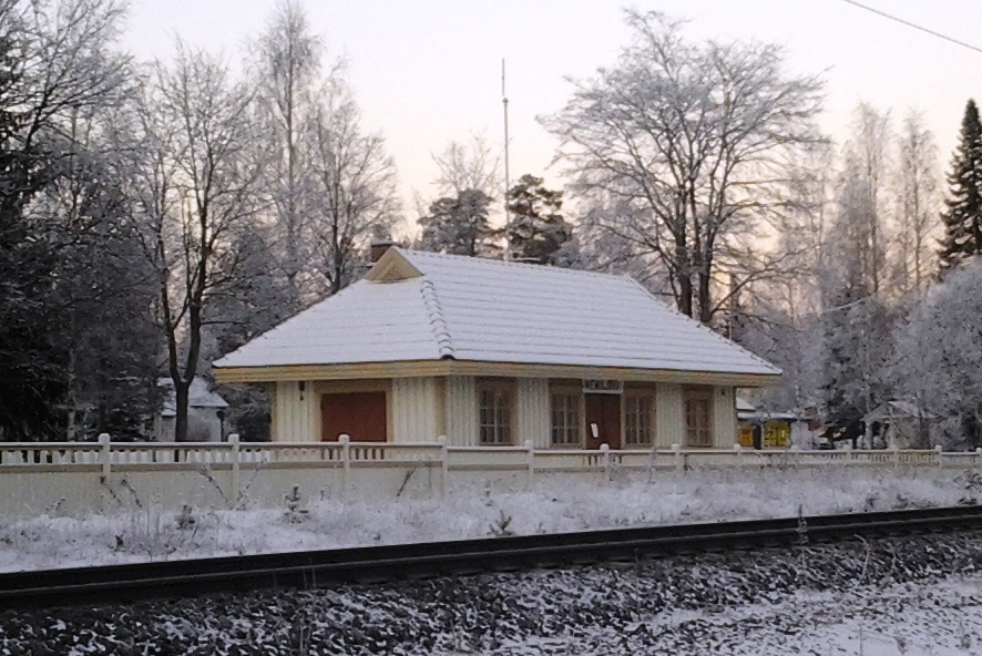 Niemisjärvi railway station in Hankasalmi.